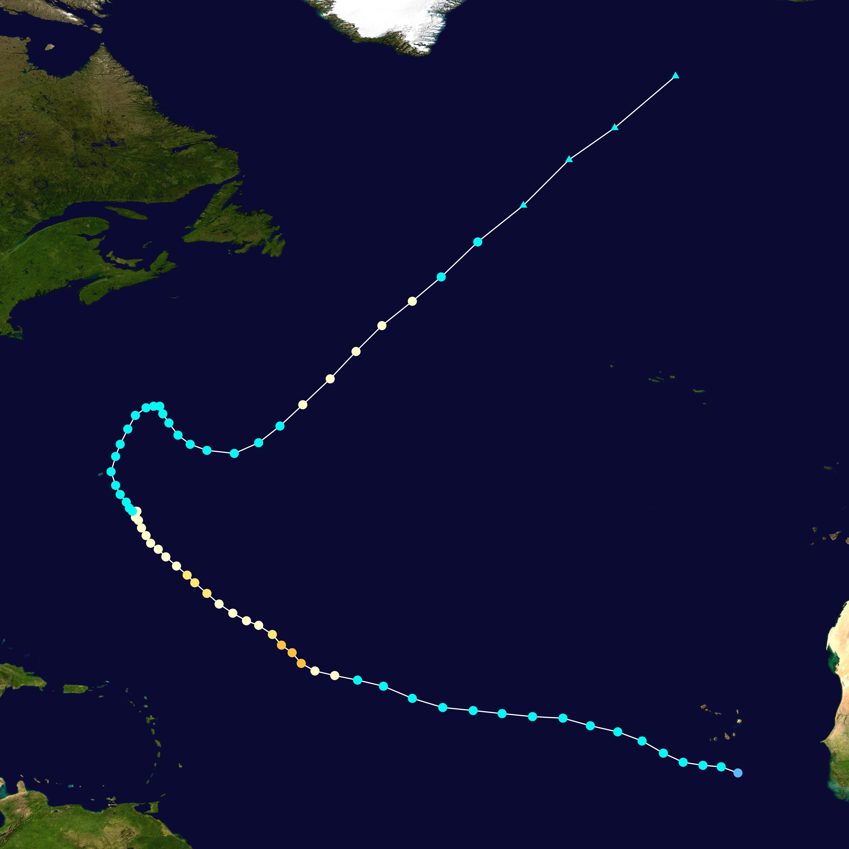 Track map of Hurricane Bertha of the 2008 Atlantic hurricane season. The points show the location of the storm at 6-hour intervals. The colour represents the storm's maximum sustained wind speeds as classified in the Saffir–Simpson scale (see below), and the shape of the data points represent the nature of the storm, according to the legend below. Saffir–Simpson scale Tropical depression≤38 mph≤62 km/h Category 3111–129 mph178–208 km/h Tropical storm39–73 mph63–118 km/h Category 4130–156 mph209–251 km/h Category 174–95 mph119–153 km/h Category 5≥157 mph≥252 km/h Category 296–110 mph154–177 km/h Unknown Storm type Tropical cyclone Subtropical cyclone Extratropical cyclone / Remnant low / Tropical disturbance / Monsoon depression